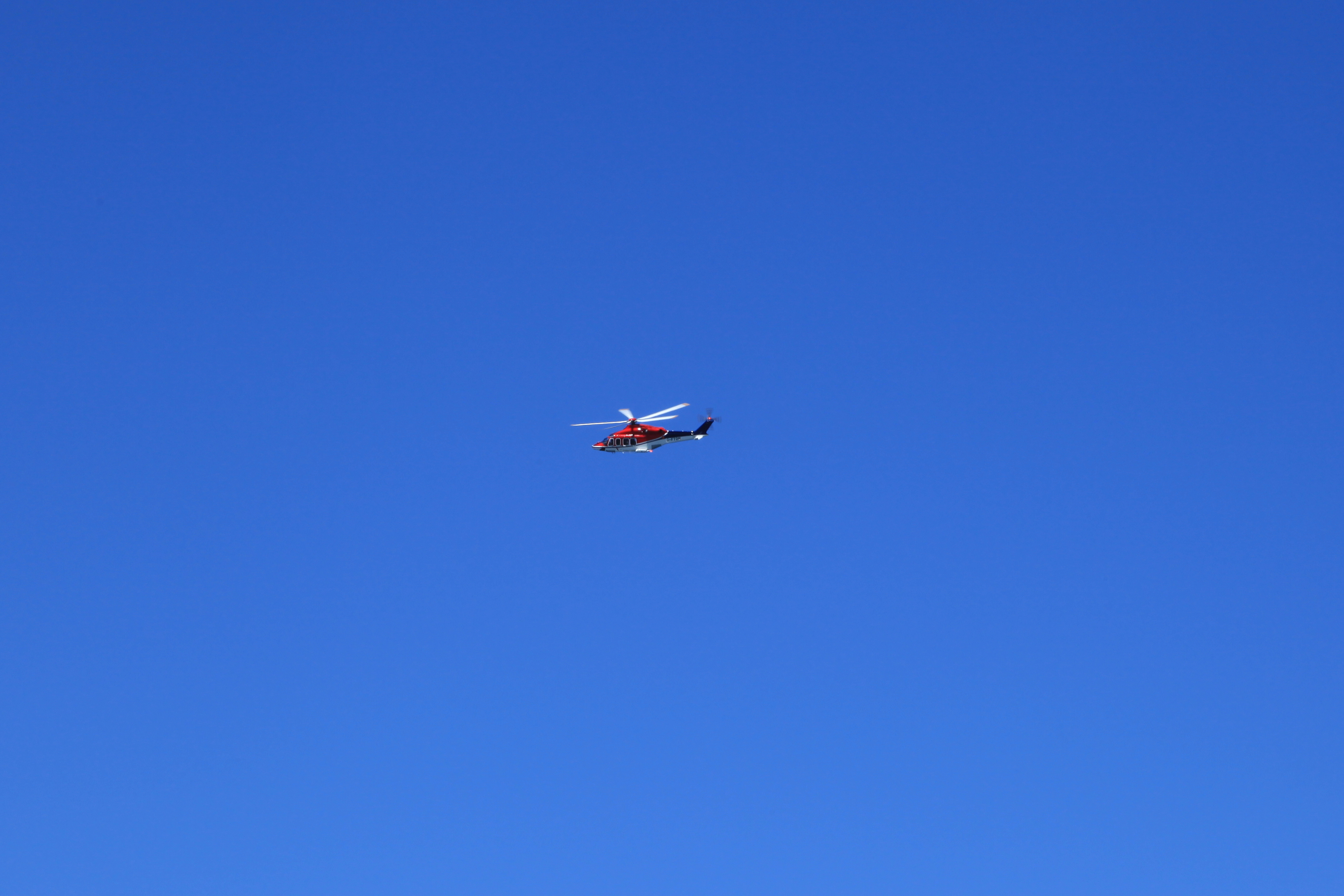 Helicopter over Comino in Għajnsielem, Malta